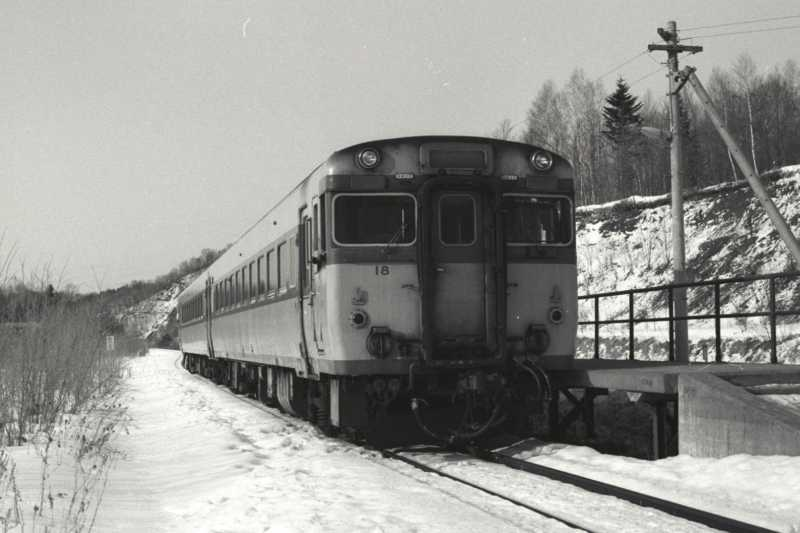 JNR diesel car Type Kiha 56, at Hokushin-Sta. View from the north. (白糠線北進駅 北側から見たところ)